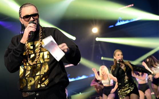 Dimal performing live with Lyndsay Pace at Bay Music Awards 2012 in Malta 12.12.12.